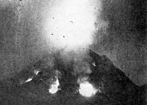 Photo of the erupting volcano from the 1914 film The Wrath of the Gods.